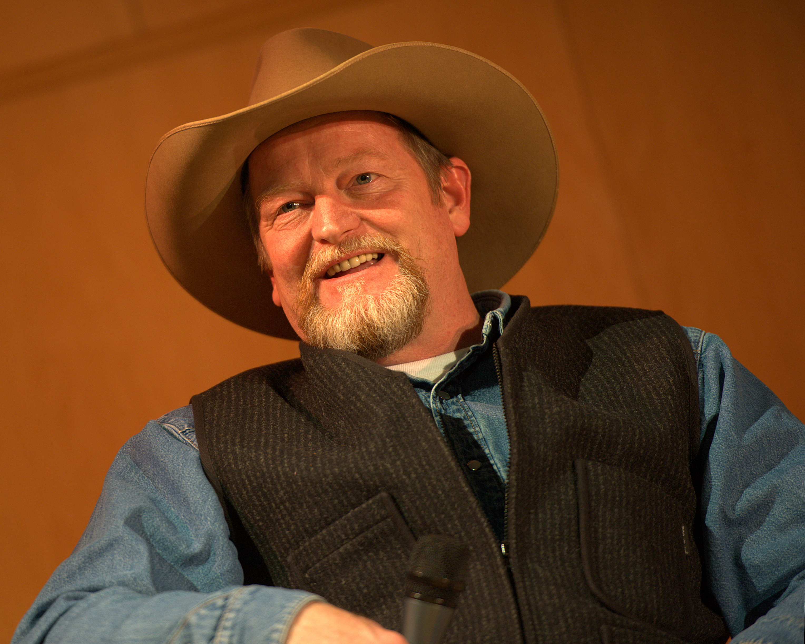 American novelist Craig Johnson speaking about his latest books in Médiathèque José Cabanis, Toulouse, France.